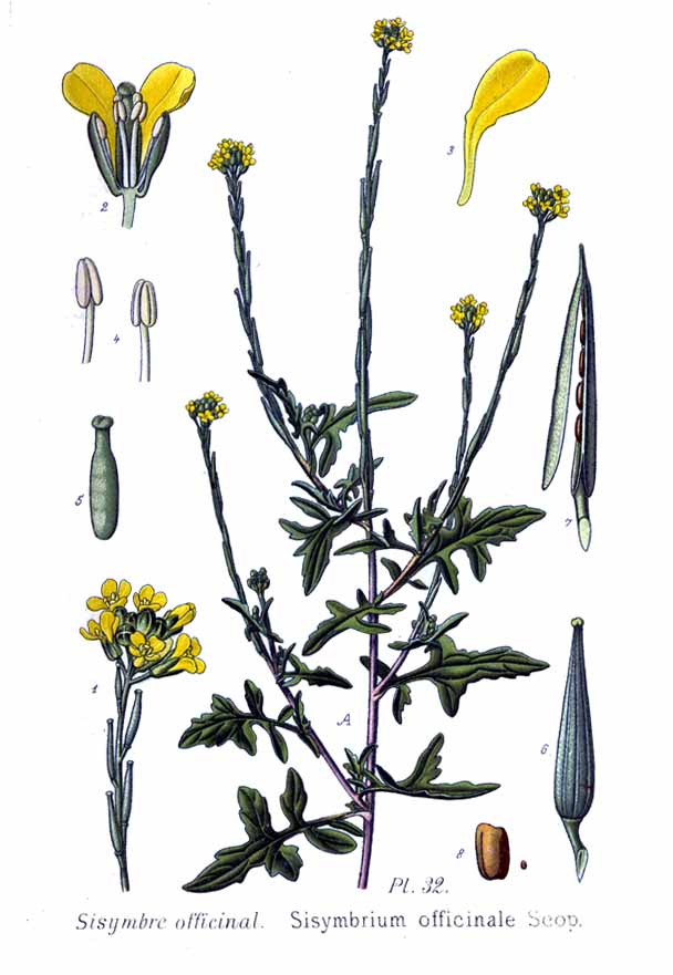 Sisymbrium officinale Scop.